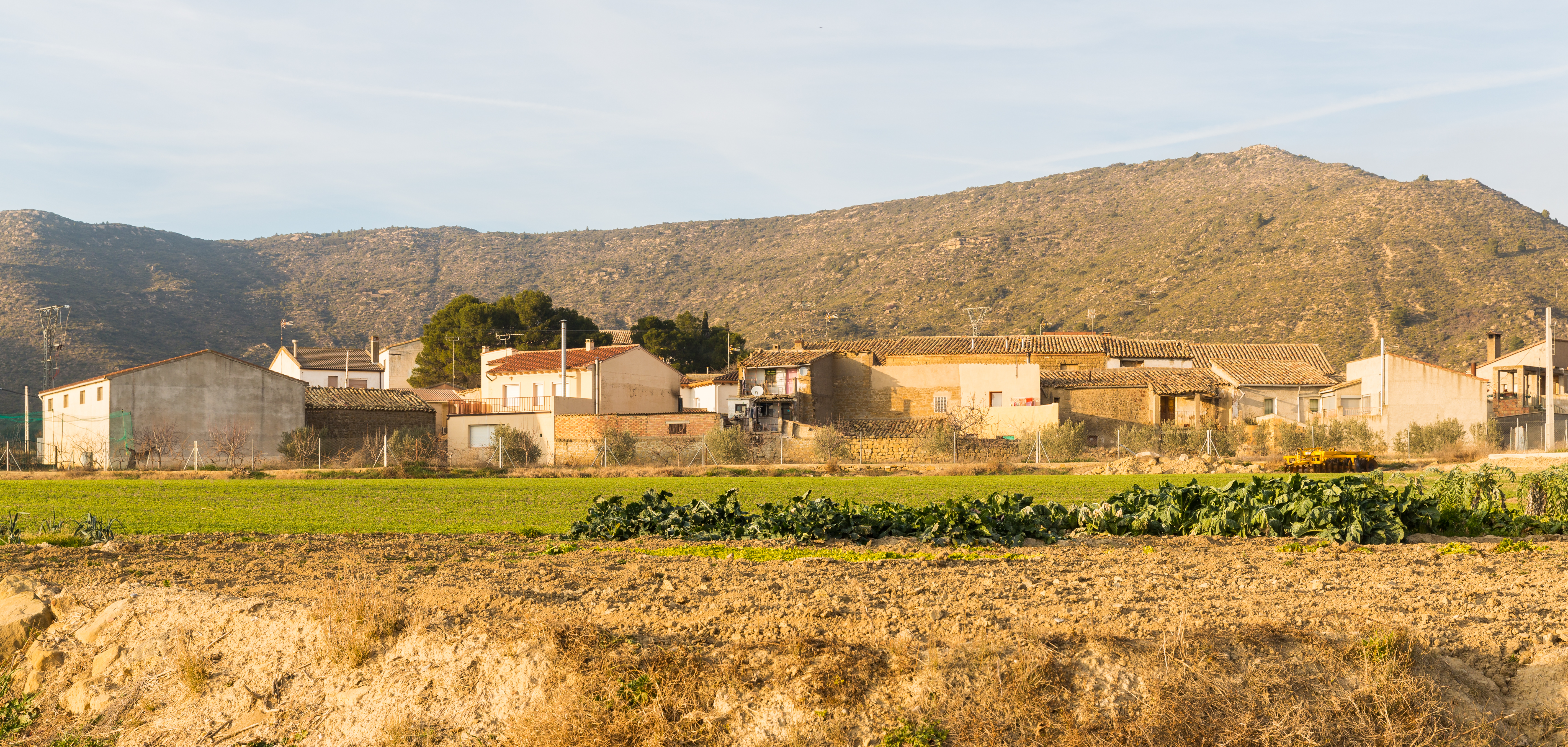 Losanglis, Huesca, Spain